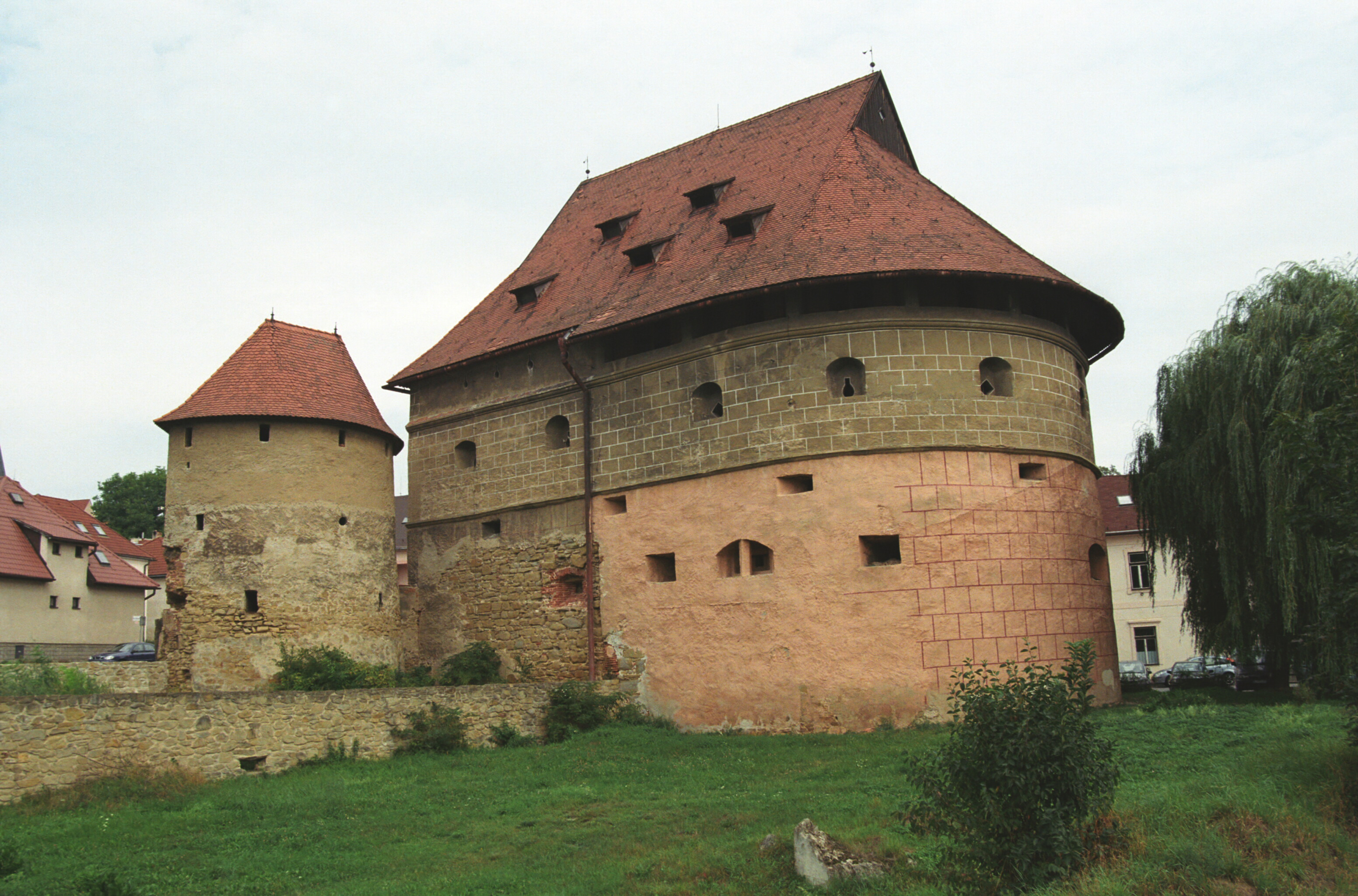 Bardejov (Bartfeld, Bártfa). Wall tower